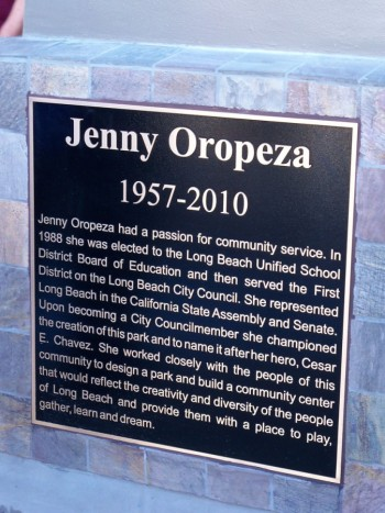 Plaque located near the entrance to the building, Jenny Oropeza Community Center at Cesar E. Chavez Park, Long Beach California